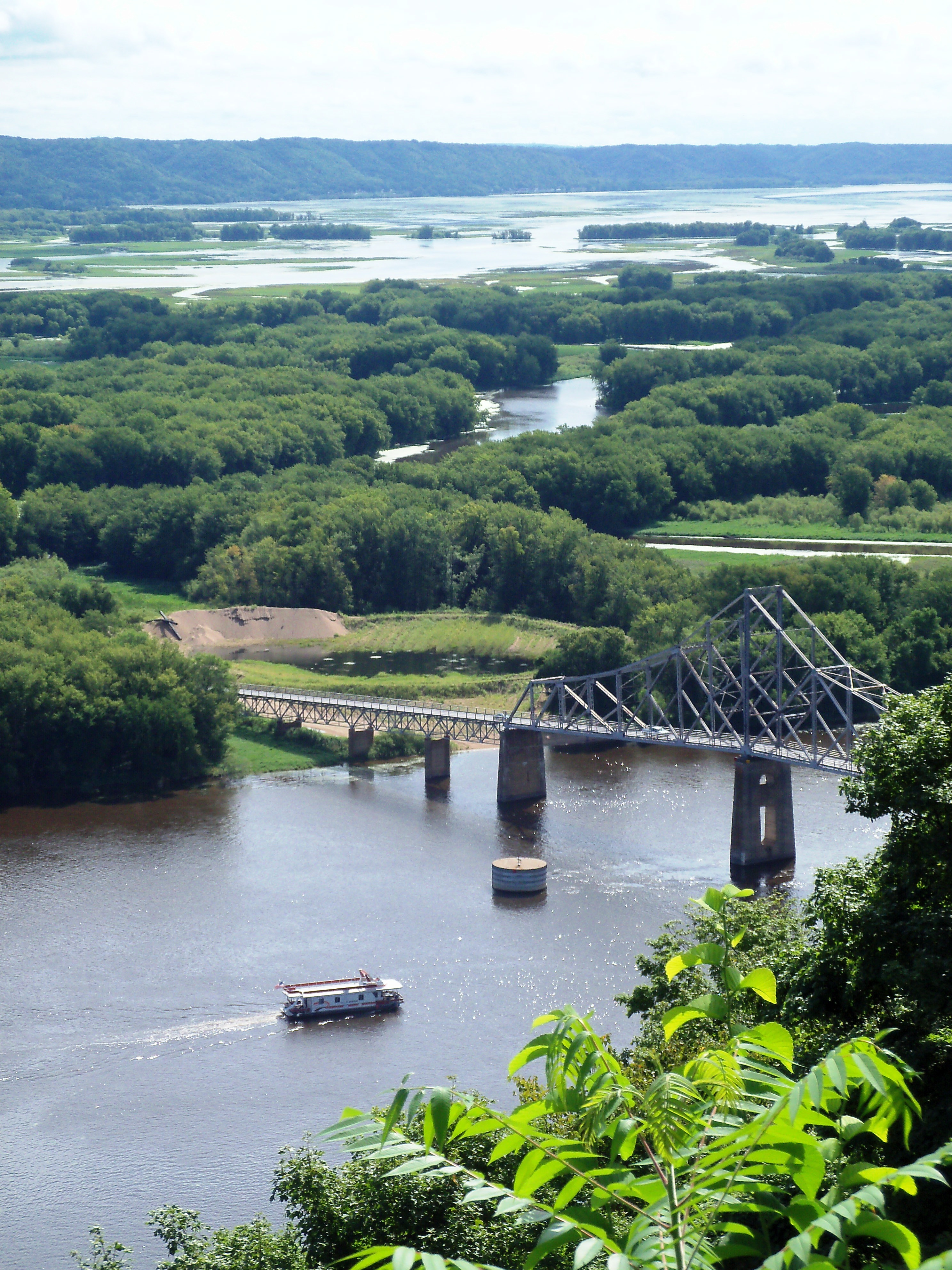 Bridge and Barge on the Mississippi